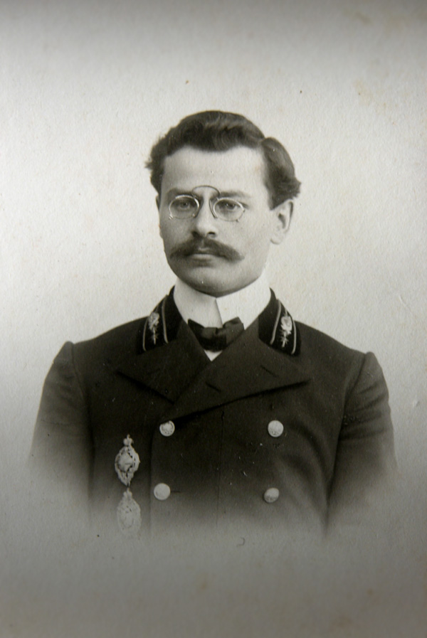 Volodymyr Barvinok, 1907 in Kyiv, Ukraine